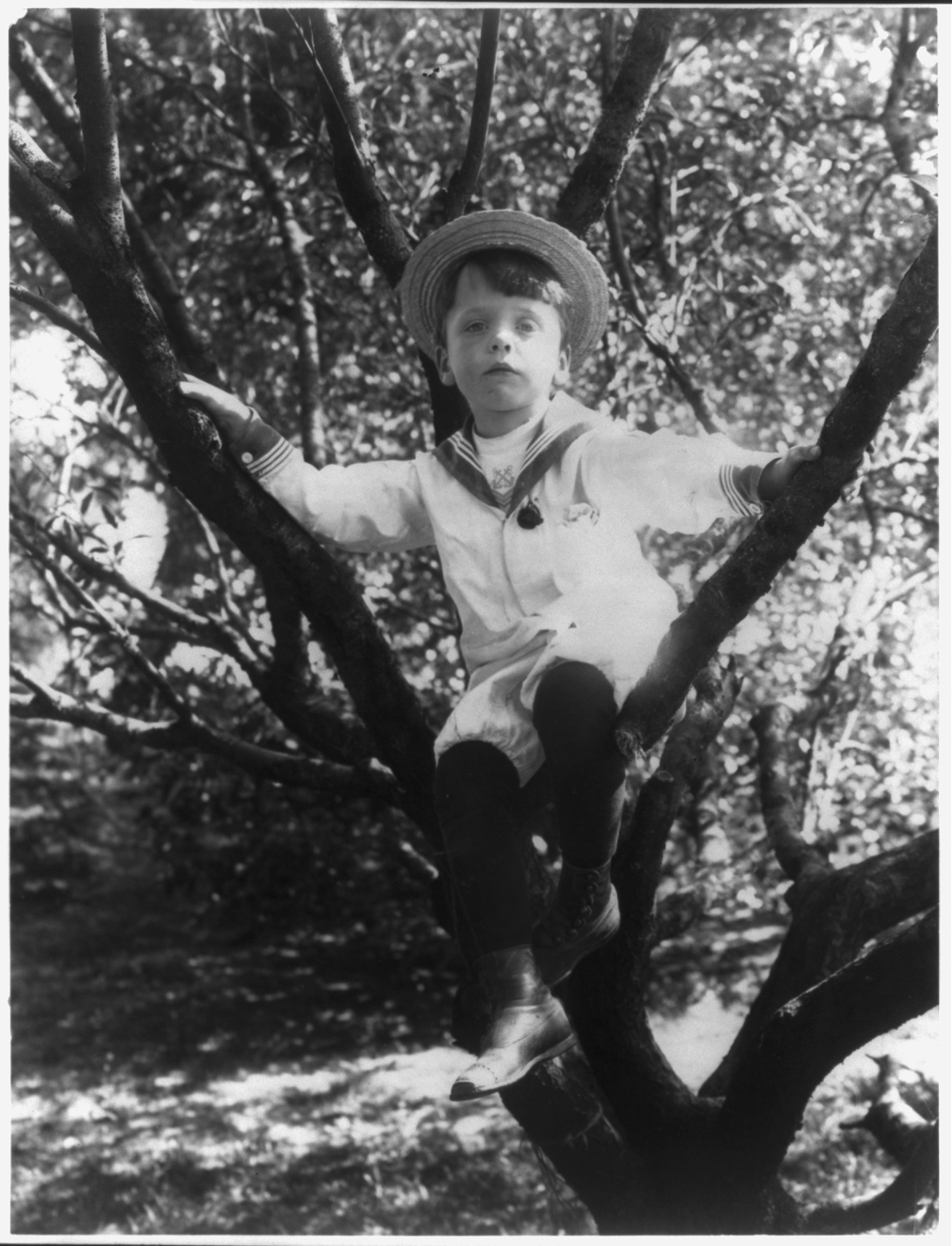 Quentin Roosevelt